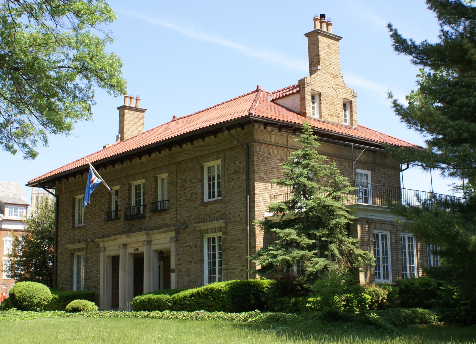 Embassy of Cape Verde in Washington